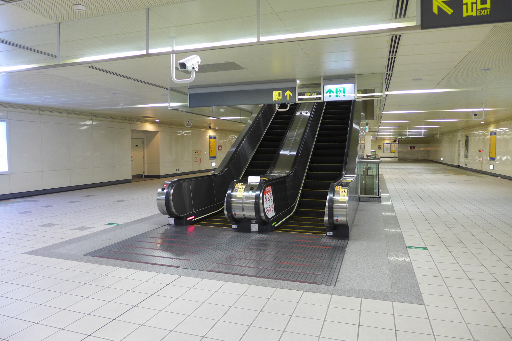 Saint Ignatius High School Station Corridor level